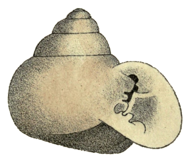 colored drawing of adult shell of Biotocus turbinatus, synonym: Tomigerus turbinatus